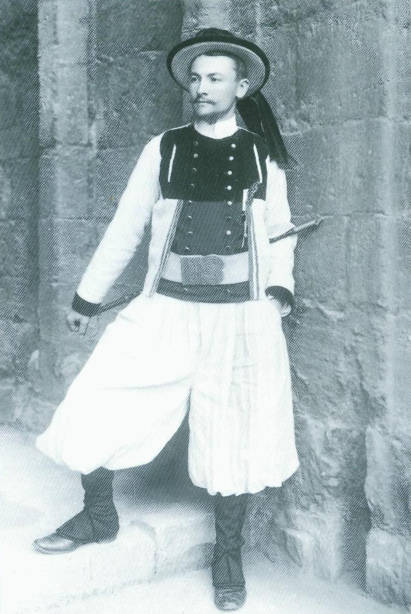 photograph of Taldir at the celtic congress of 1904